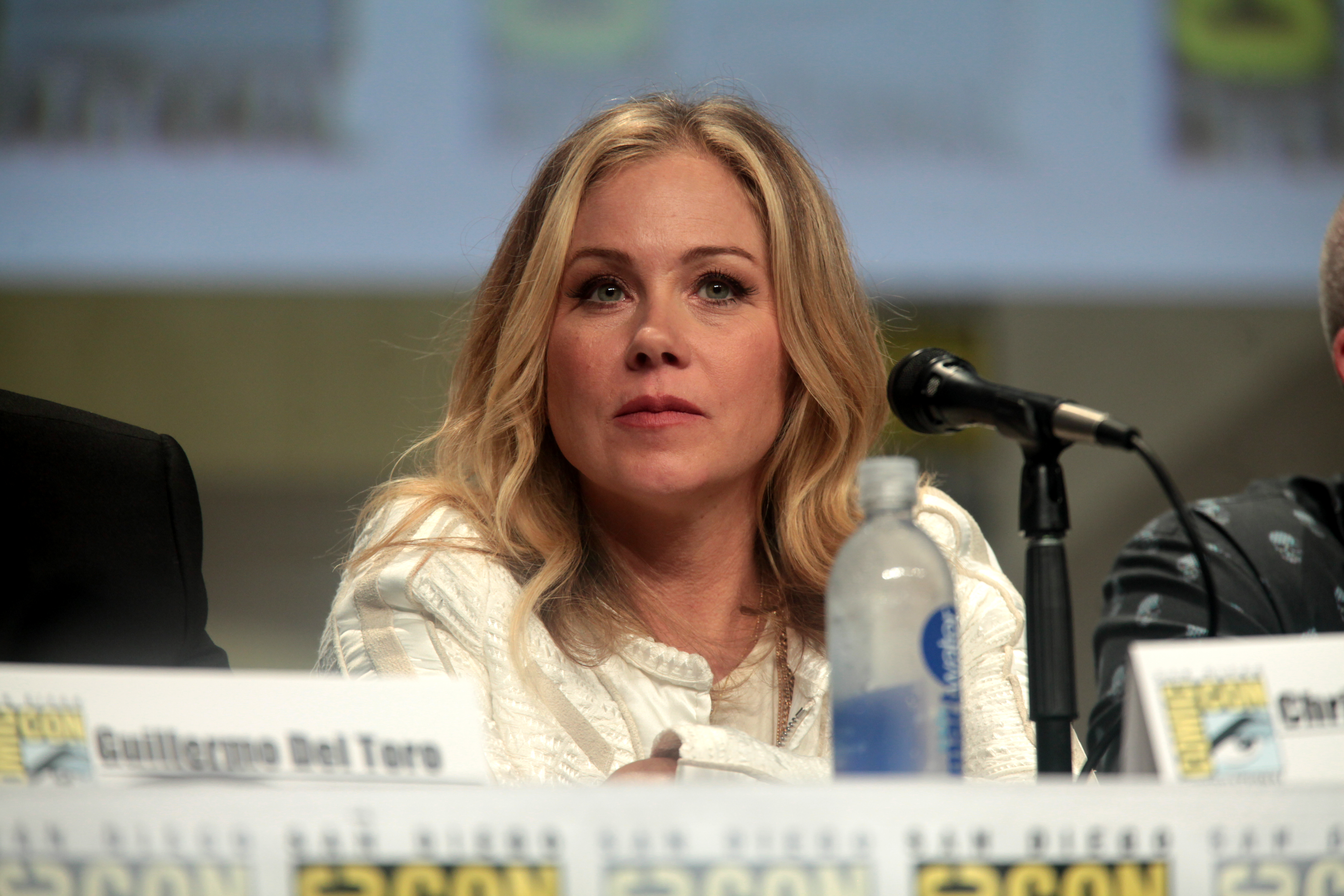 Christina Applegate speaking at the 2014 San Diego Comic Con International, for "The Book of Life", at the San Diego Convention Center in San Diego, California on July 25, 2014